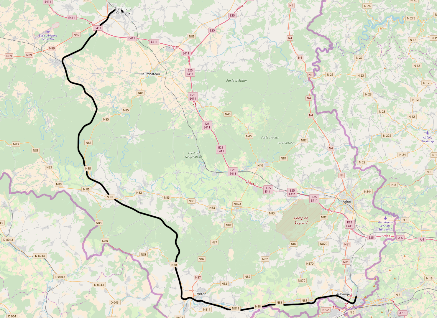 Belgian Railway Line 165, Libramont - Athus